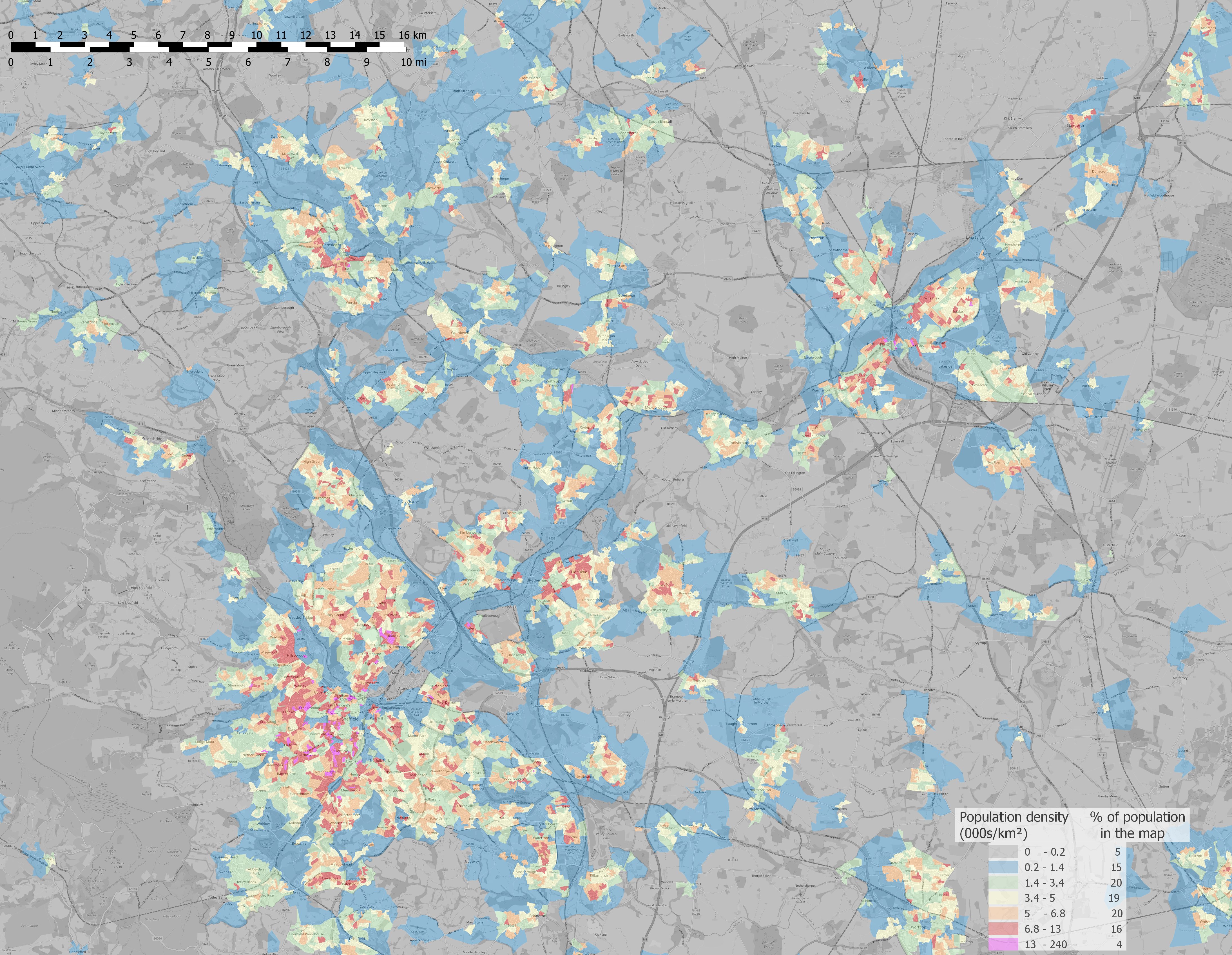 In 2011 the map area was inhabited by 1.57 mln people, 1.34 mln in South Yorkshire county. Population density computed from 2011 Output Area (OE) data and there is on 2020 map so new neighbourhoods are visible in the grey zone. Values sometimes are not representative because: sometimes a whole nonresidential area is contained in one from a few adjacent OEs. sometimes OEs encompass only building, sometimes only part of it, to keep up stiff household count limit, what gives very high density. OE boundaries are visible, especially in red and pink.